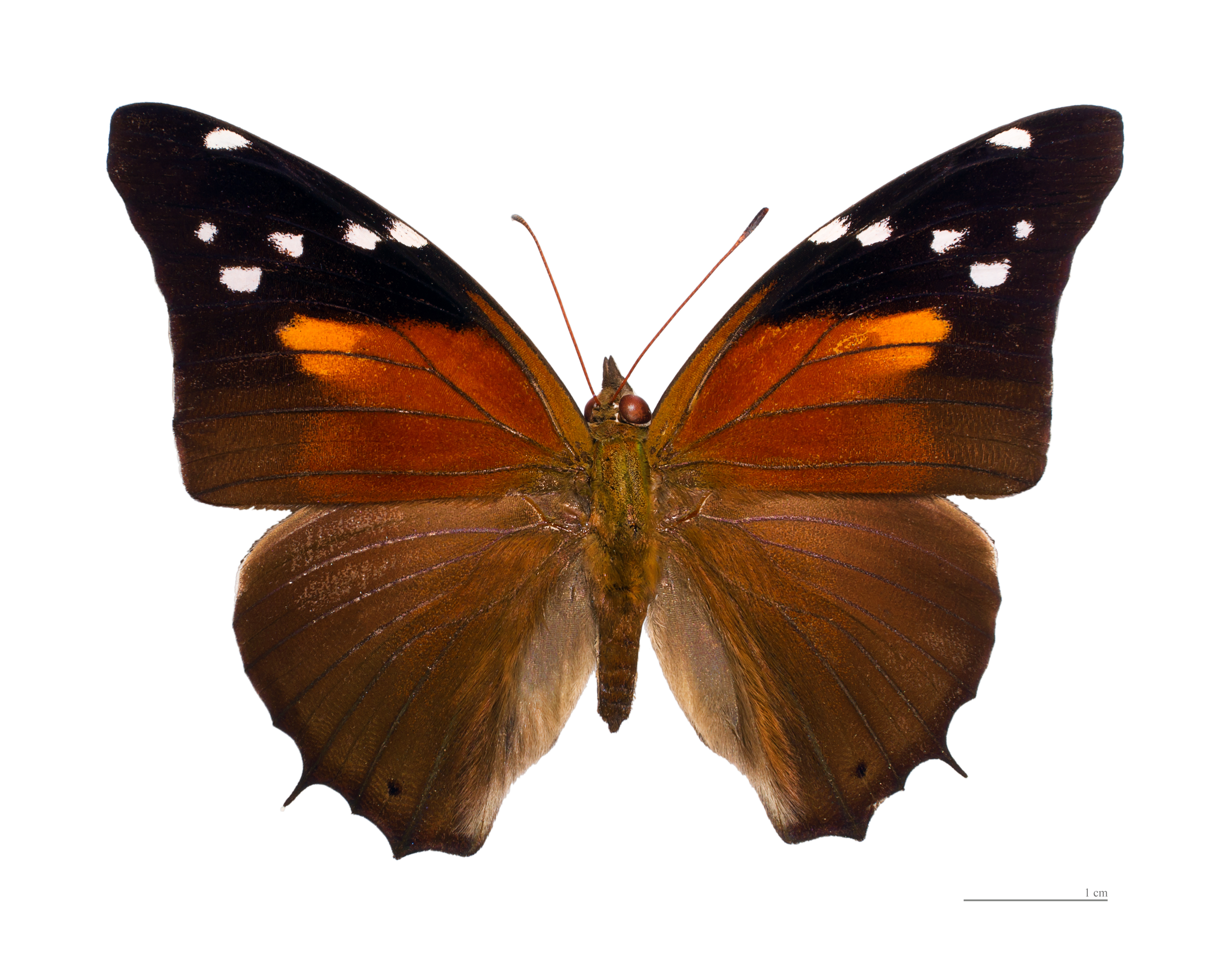 ♂ - Dorsal side Locality : Cacao, Crique Baguot, French Guiana.